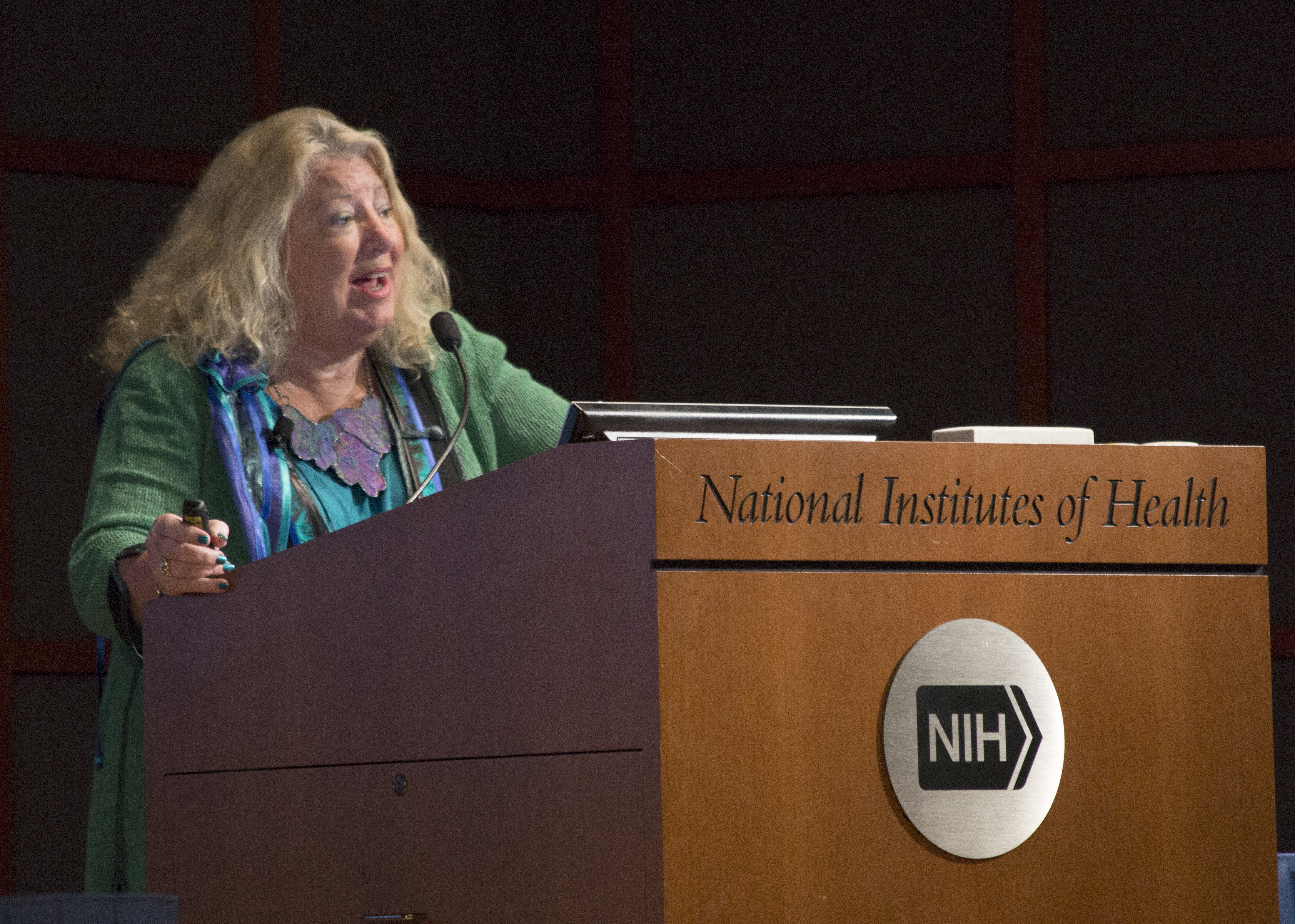 Marilyn Huestis, Ph.D. shares her research on the, "Effects of Cannabis on Human Psychomotor Performance," during the NIH #MJNeuroSummit, Bethesda, Maryland. March 23, 2016 For more information about the Marijuana and Cannabinoids: A Neuroscience Research Summit, check out our website